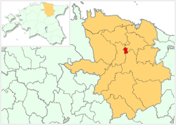 Location map of Rakvere town, Estonia. This image was created by Senzeichi.